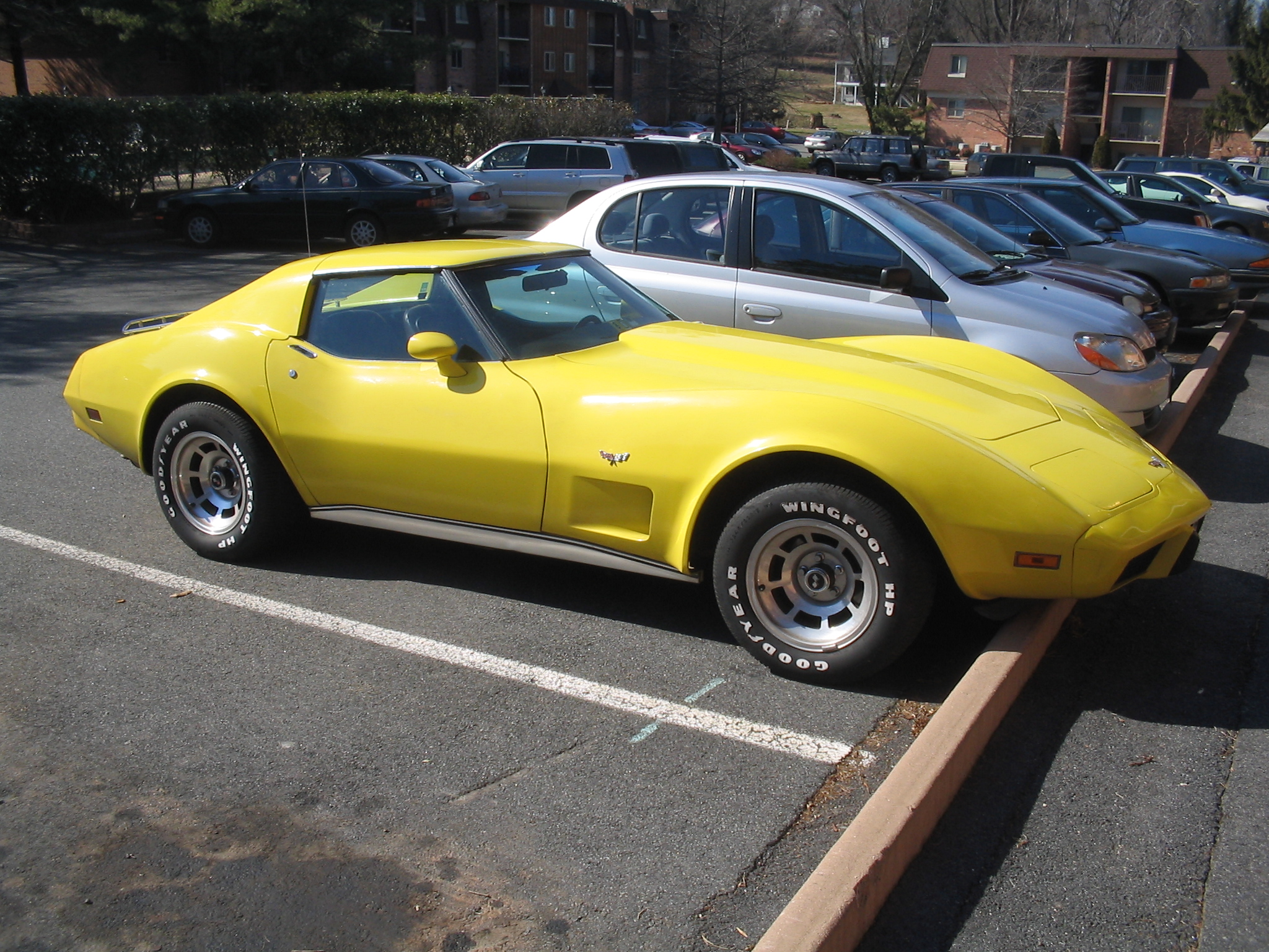 A yellow 1977 Chevrolet Corvette C3. This is a 1977 C3 Chevrolet Corvette. The different between 1976 and 1977 are the emblems and the mirrors as one may see in this picture. Perhaps it has an L48 engine in it, because there are no "L82"-emblems on the hood.